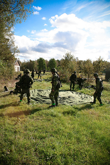 Swedish soldiers setting up a standard Swedish military camp.